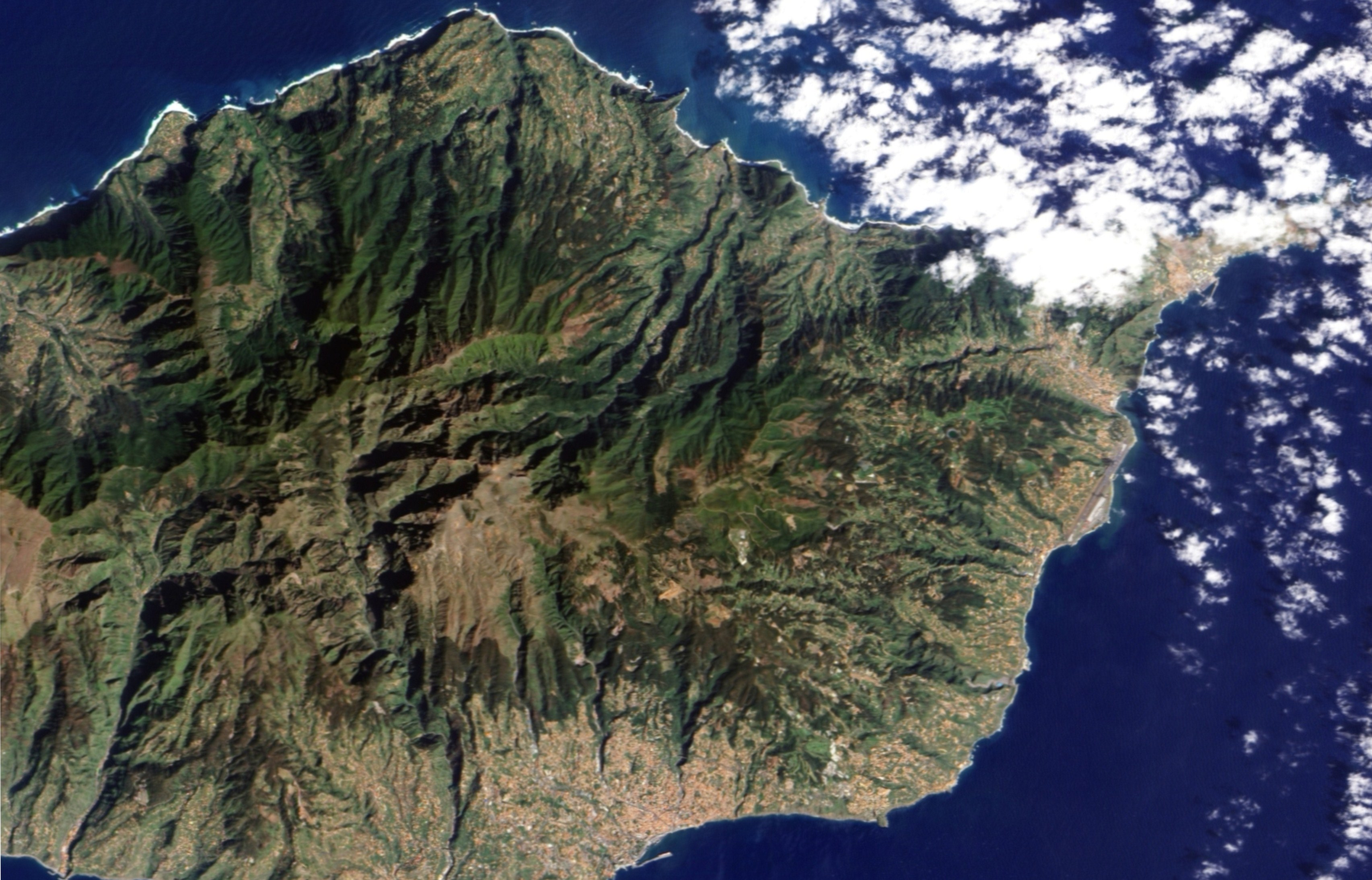 Two topographic features characterize this part of the Madeiran landscape: steep mountains and deep ravines. Both landforms are evident in this image. Deep ravines define the path water routinely takes off the island. In shadow in the morning sunlight, the ravines are like dark wrinkles radiating from the centre of the island in this image. The cities, the colour of terracotta roof tiles, are built mostly around the ravines in this region with two notable exceptions. The small town of Ribeira Brava sits at the mouth of a large ravine that extends from the heart of the island. The second exception is Funchal, the island’s capital. Three rivers run from the mountains into the city. The deep ravines that bring two of the rivers into the city are evident in the image. The rivers are lined with some of the city’s primary roads, and they come together in a “v” near the harbour.